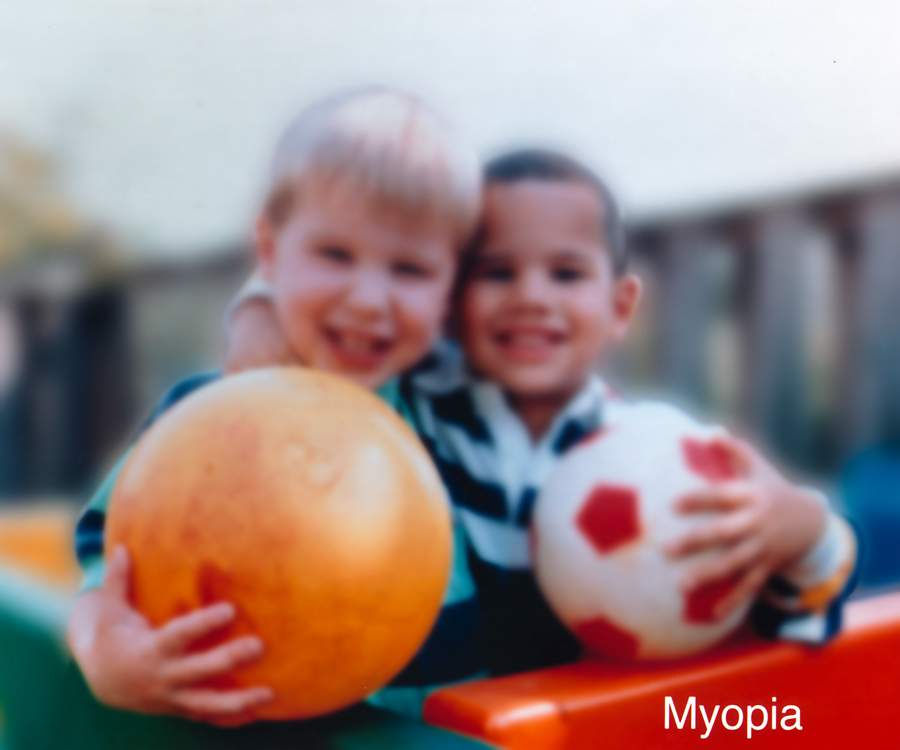 Description: A scene as it might be viewed by a person with myopia (nearsightedness). Credit: National Eye Institute, National Institutes of Health Ref#: EDS06